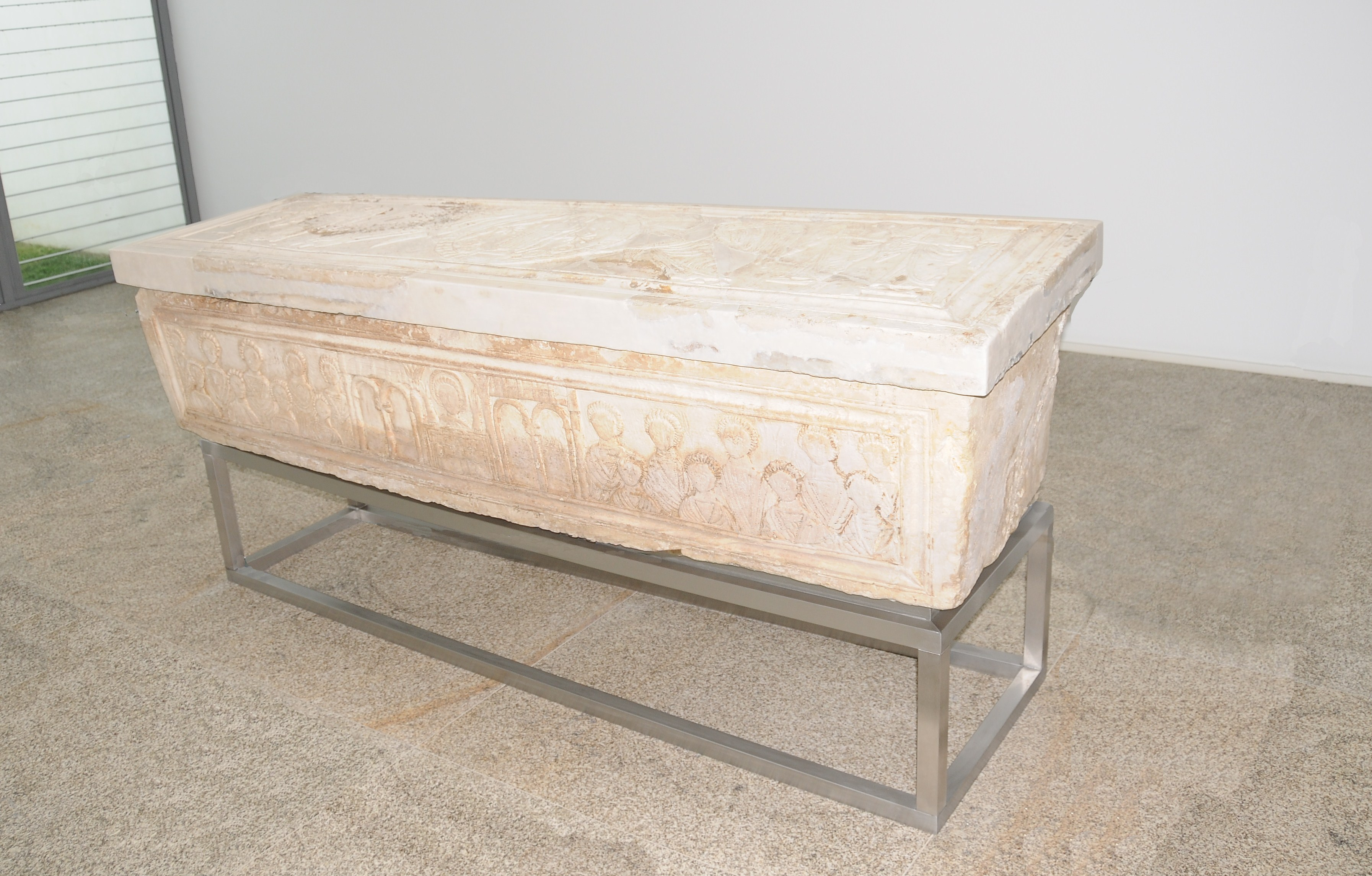 Martim of Braga Tomb, in Dume, Braga, Portugal